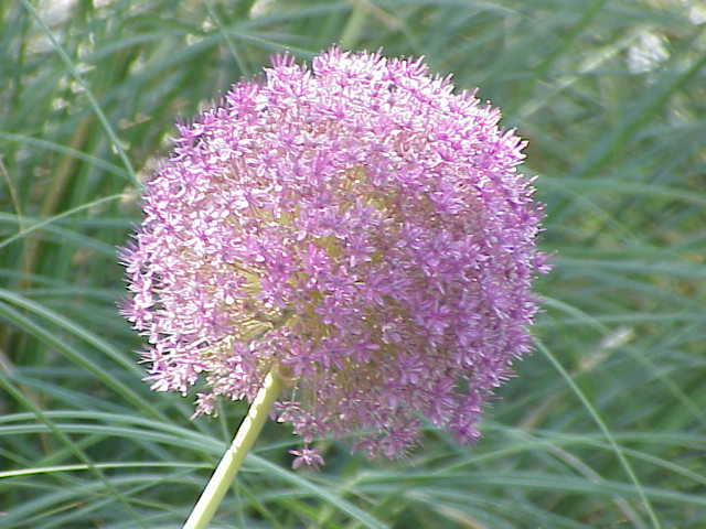 Species: Allium giganteum Family: Liliaceae Image No. 2